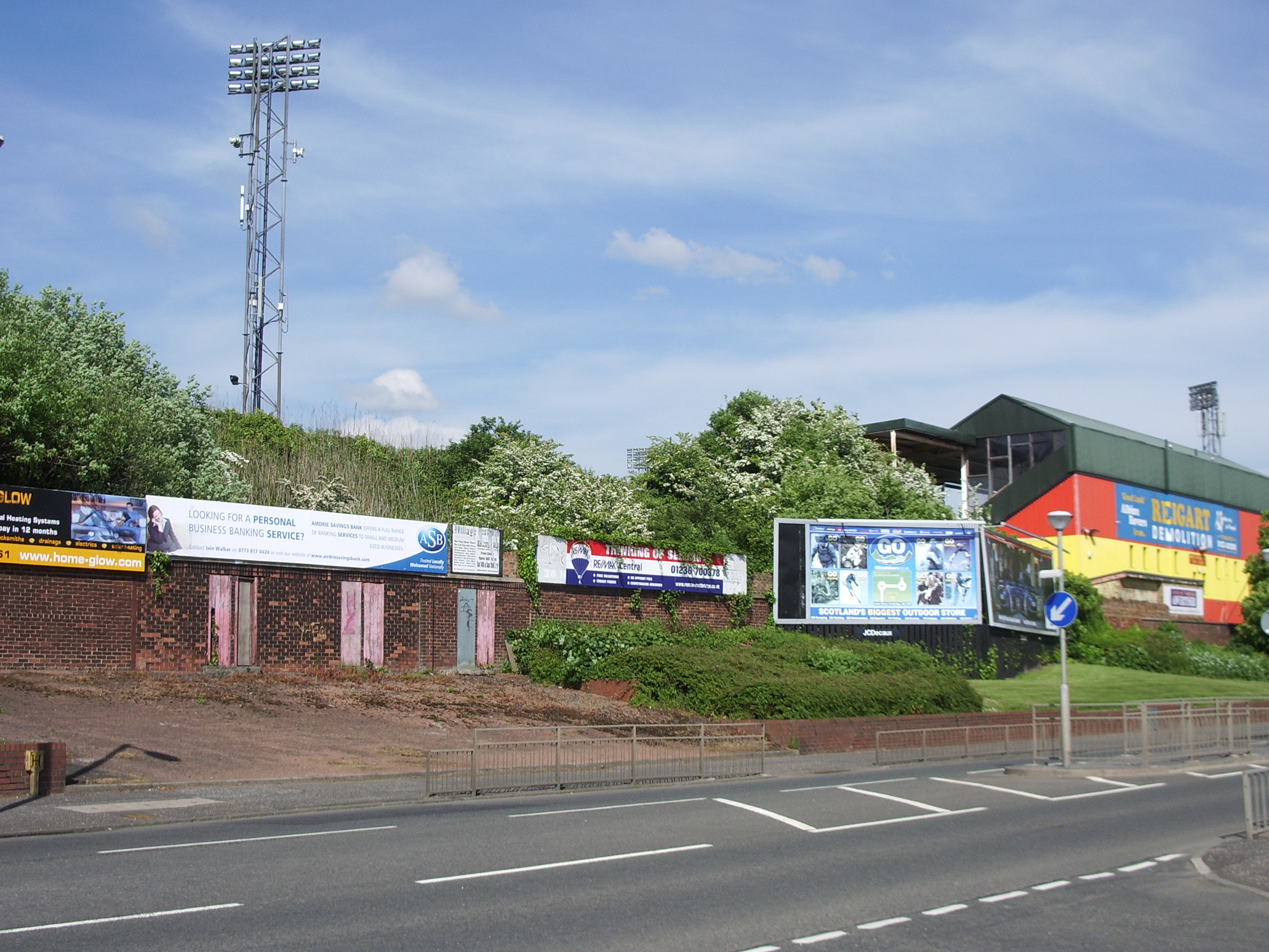 The home ground of Albion Rovers, Coatbridge, looking north-east.